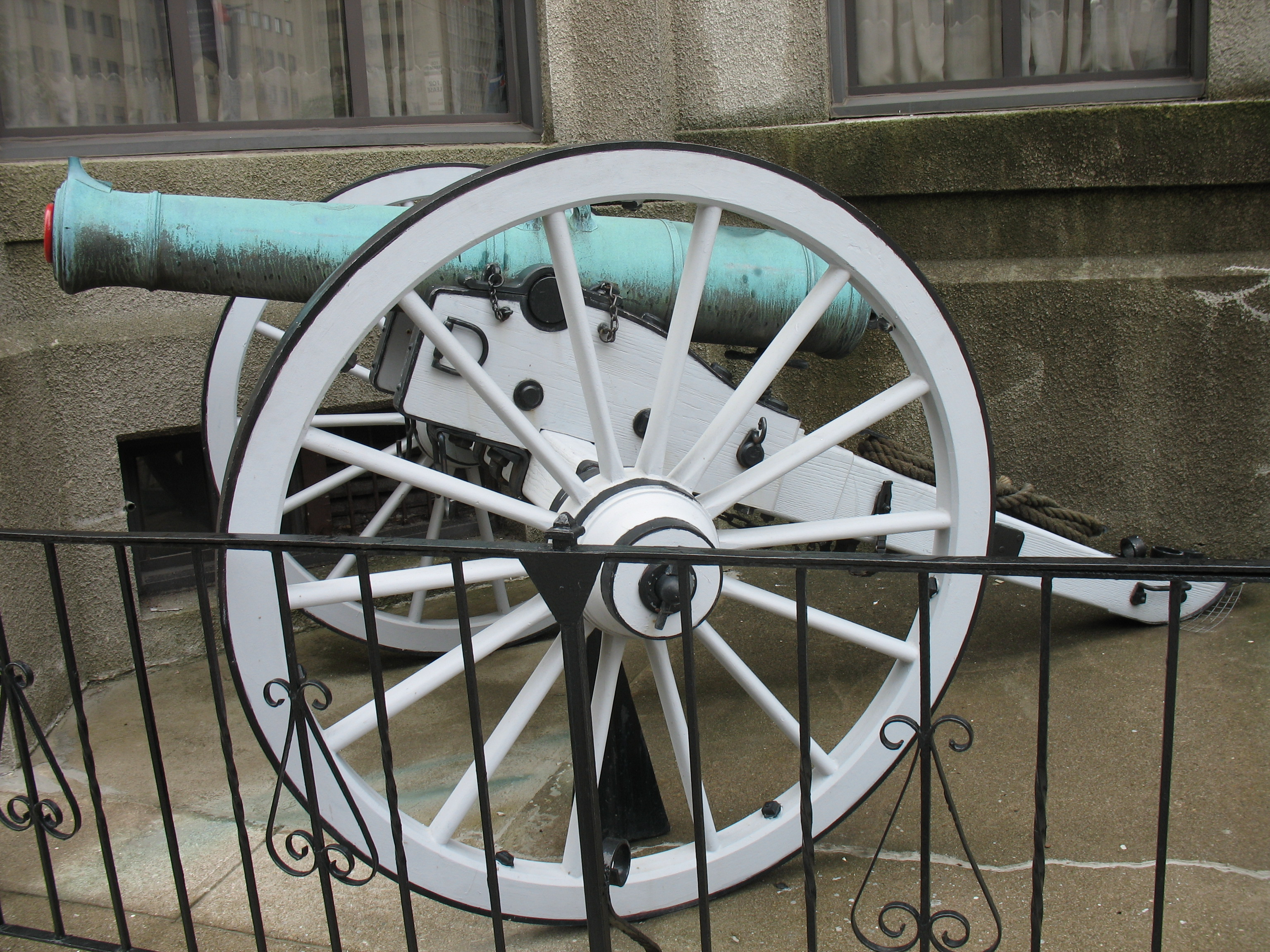 A British 9-pounder gun. The barrel was cast by K & C King, Woolwich, England, in 1815. The barrel is just over 6 feet long, weighs 1350 pounds and can fire a 9-pound solid shell to 1400 yards. This gun is one of two such bronze pieces owned by the Royal Canadian Military Institute, in downtown Toronto, Canada. The other, also cast by K & C King, is dated 1813. A plaque mounted beside the guns contains a typographical error, which incorrectly states that the pieces could fire 3-pound projectiles. In fact, as 9-pounders, they both were built to fire 9-pound projectiles. The guns are currently in secure storage while the RCMI building is rebuilt. Reopening is expected in late 2013. Both RCMI guns are mounted on cast aluminum American Civil War reproduction carriages. The original - and proper - British wooden carriage is substantially different in design from this cast aluminum carriage. Several years ago, RCMI knowingly opted to mount both guns on these incorrect carriages because upkeep of the original wooden carriages became prohibitively expensive, due to the ravages of weather. Both guns were a gift in 1900 from the Minister of Militia, the Right Honourable Frederick Borden. and